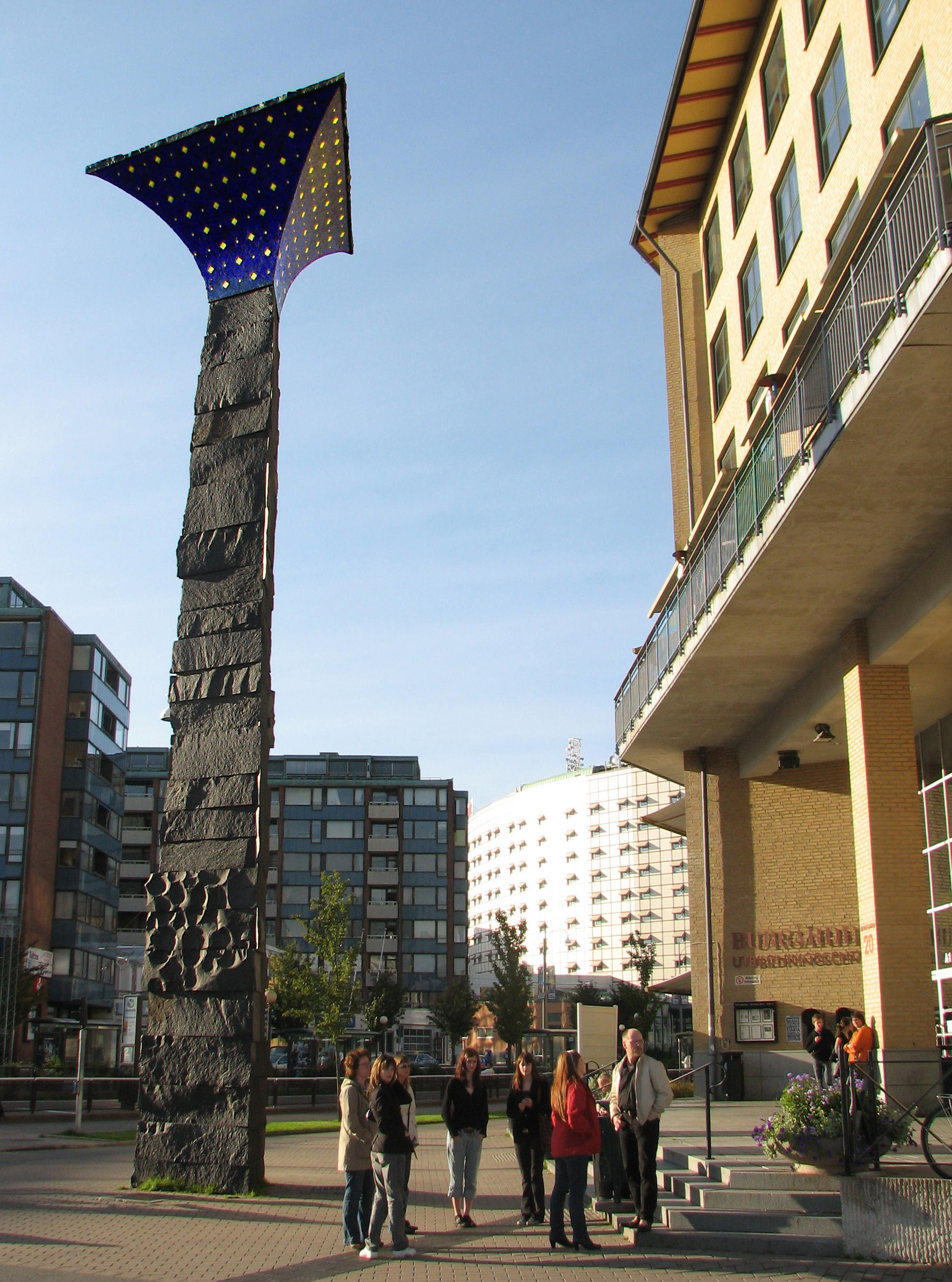 The larger of two sculptures together called "Mut" (the name of an egyptian goddess) by Roland Anderson, placed outside Burgårdens utbildningscentrum in Göteborg, Sweden.